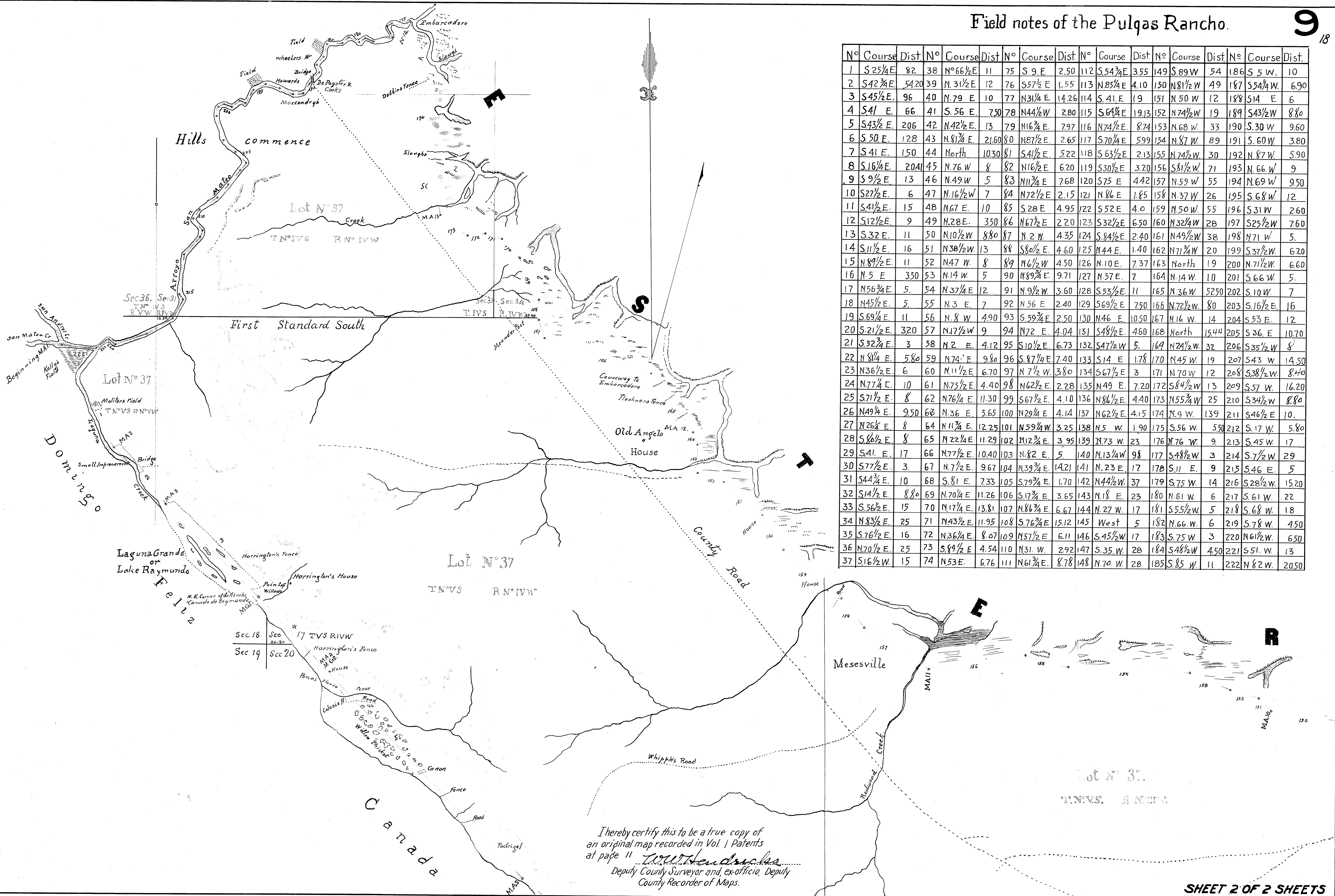 In 1857, following the 1856 official survey, the grant was patented to Maria Soledad Ortega de Argüello (one undivided half), Jose Ramon Argüello (one undivided fourth), Luis Antonio Argüello (one undivided tenth) and S. M. Mezes (three undivided twentieths). Simon Monserrat Mezes (d. 1884) was the Argüello family's lawyer who handled the land patent process